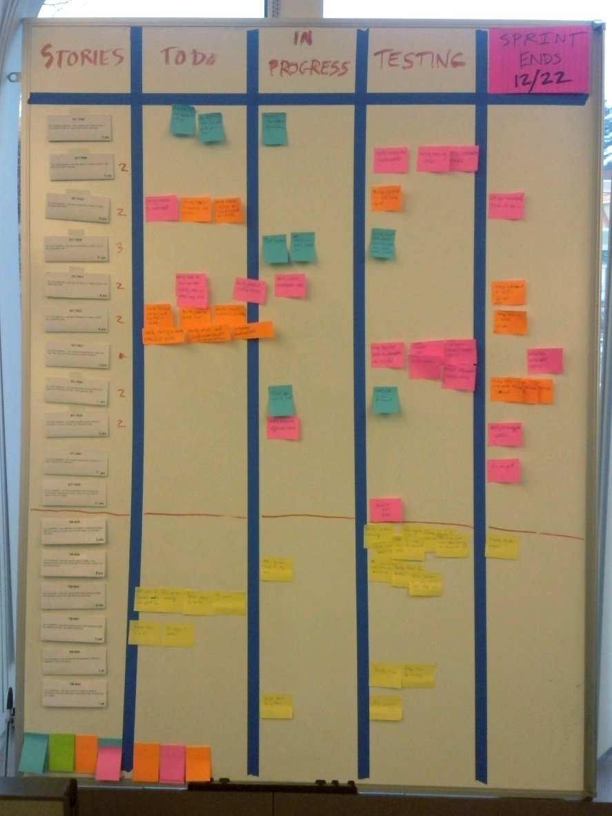 A KANBAN task board used to see and change the state of the tasks of a project, like “to do”, “in progress” and “testing”.